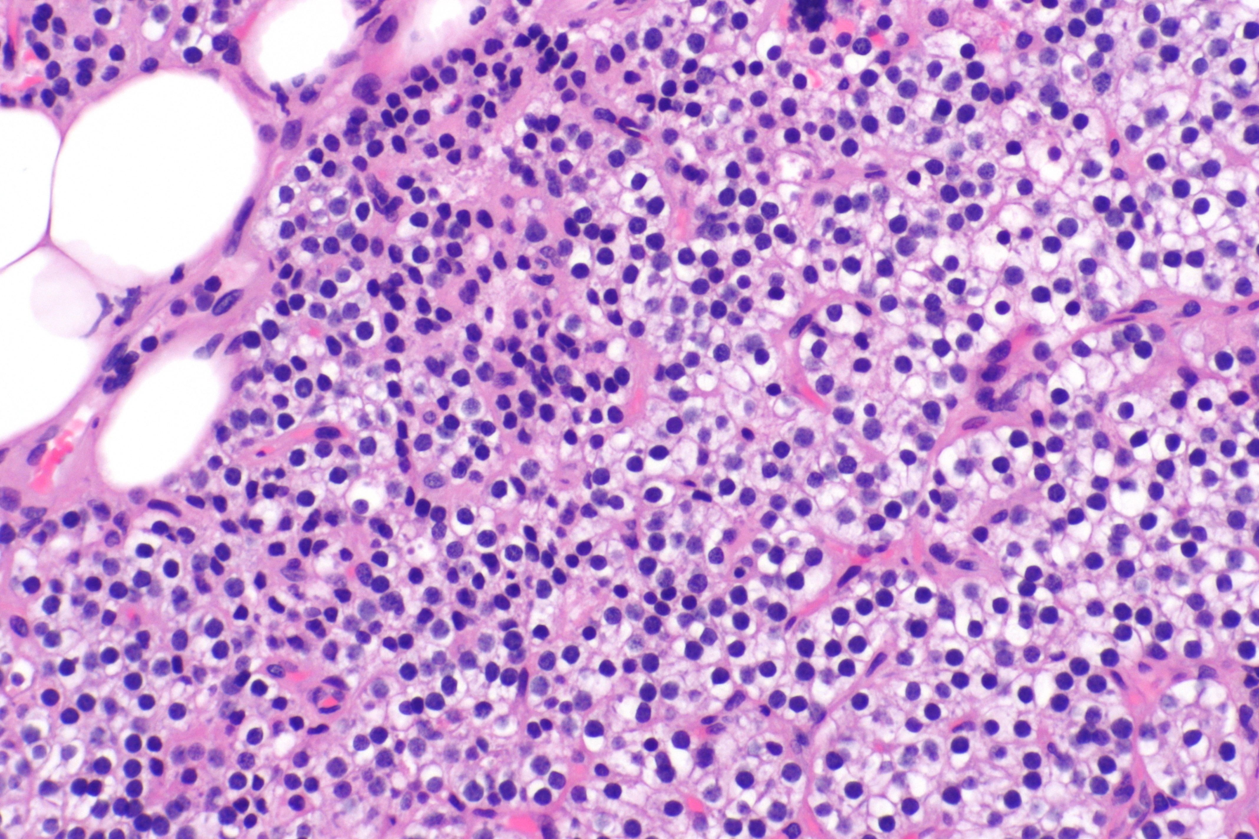 Micrograph showing a parathyroid hyperplasia. H&E stain. Parathyroid hyperplasia is a clinicopathologic diagnosis. The histology is nonspecific. Related images PA - very low mag. PA - low mag. PA - intermed. mag. PA - high mag.